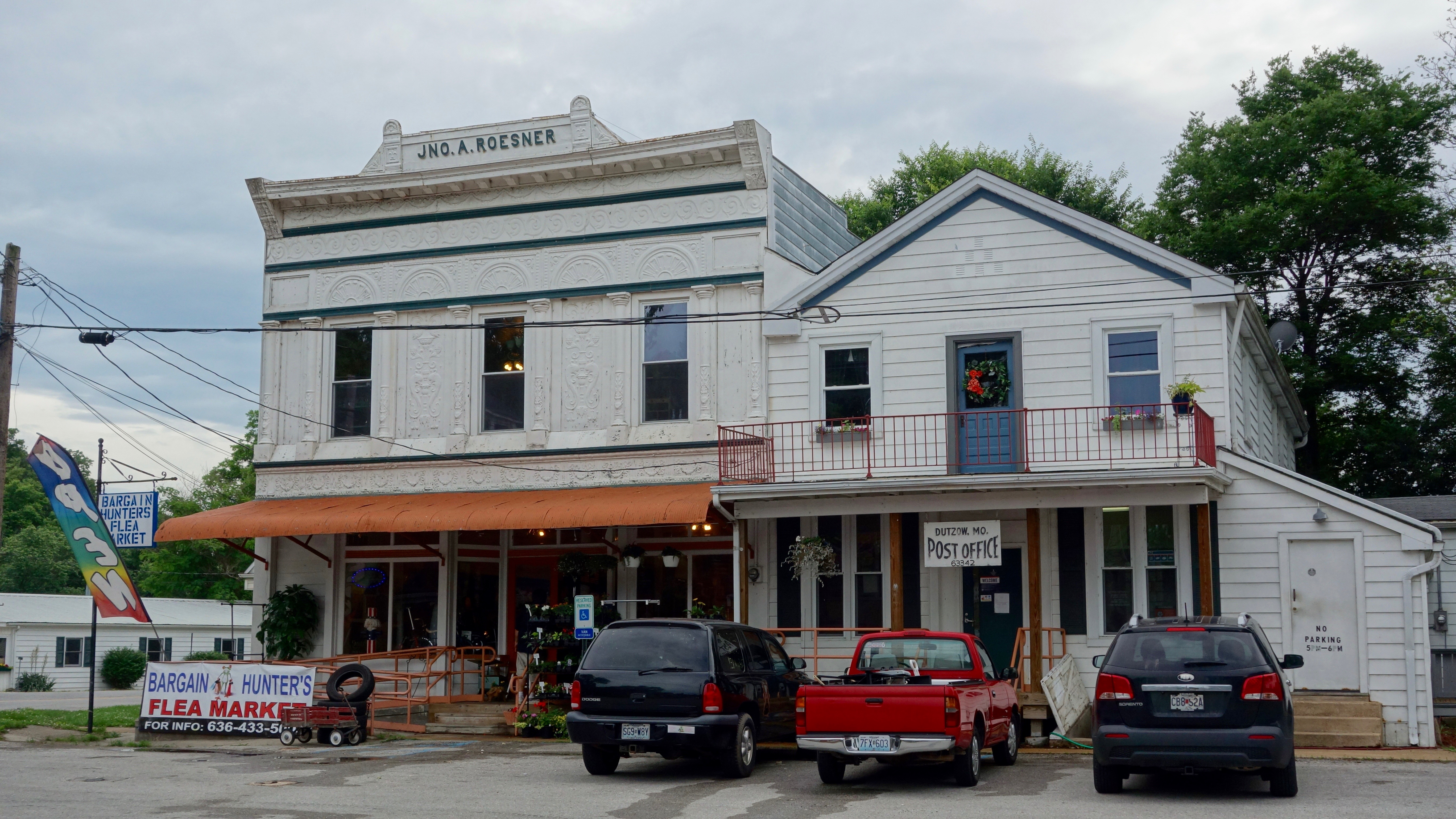 Dutzow, Mo.